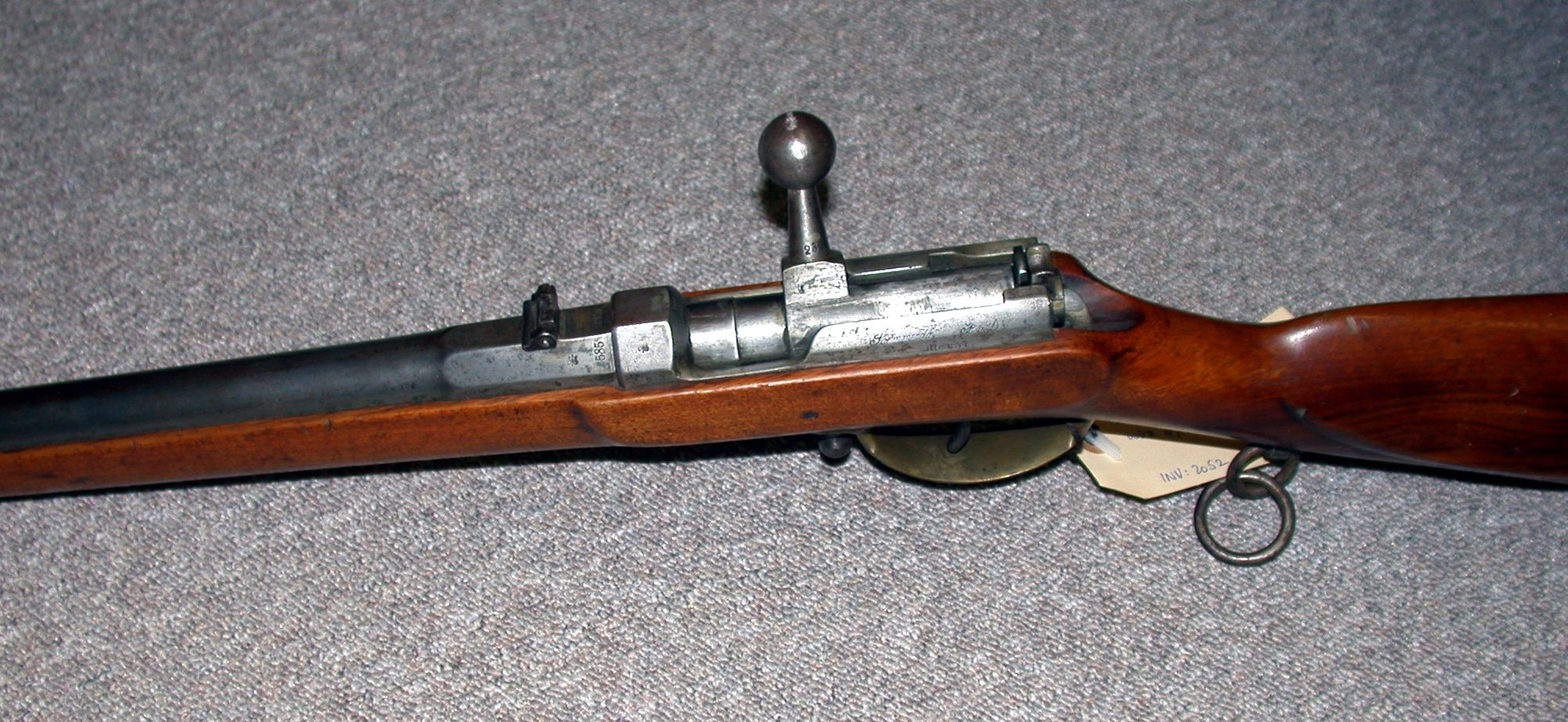 Dreyse carbine M1857, Breech